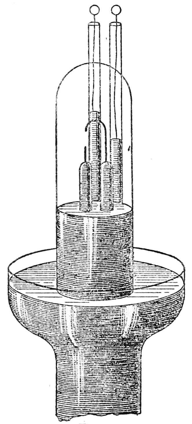 Cavendish experiments of isolating the gases 2